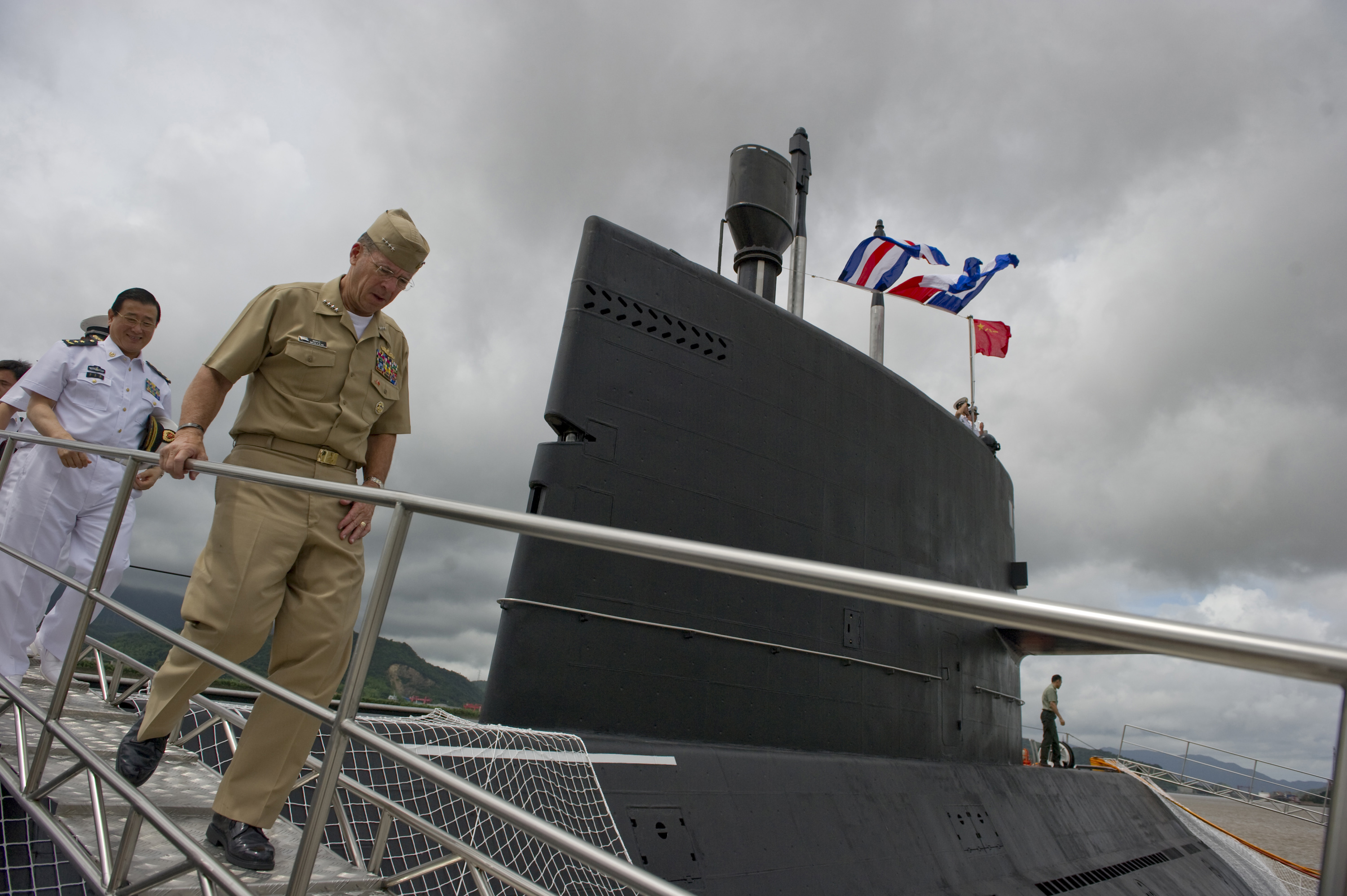 Chairman of the Joint Chiefs of Staff Adm. Mike Mullen departs the Chinese People's Liberation Army-Navy submarine Yuan at the Zhoushan Naval Base in China on July 13, 2011.